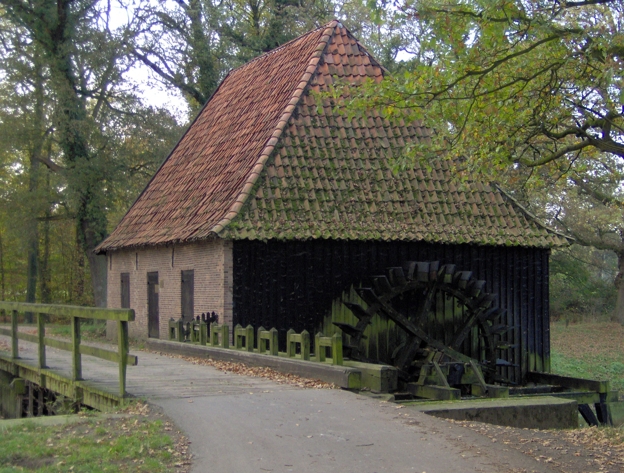 The oil mill De Noordmolen in the hamlet of Deldeneresch near Delden in the province of Overijssel in the Netherlands